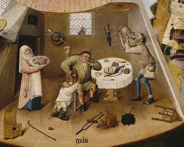 Table of the Mortal Sins [detail: Gula (gluttony)].